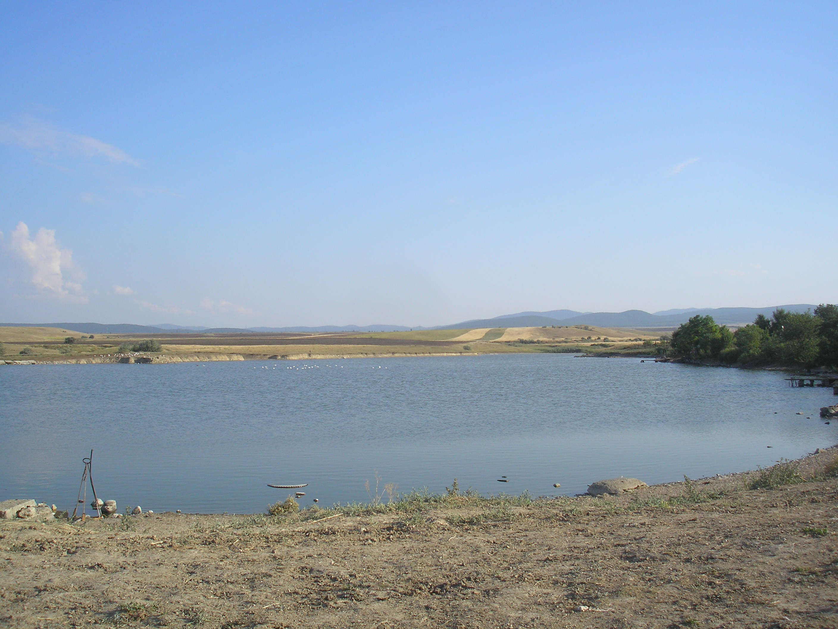 Pond on the East Bulganak River near the village of Prudy.